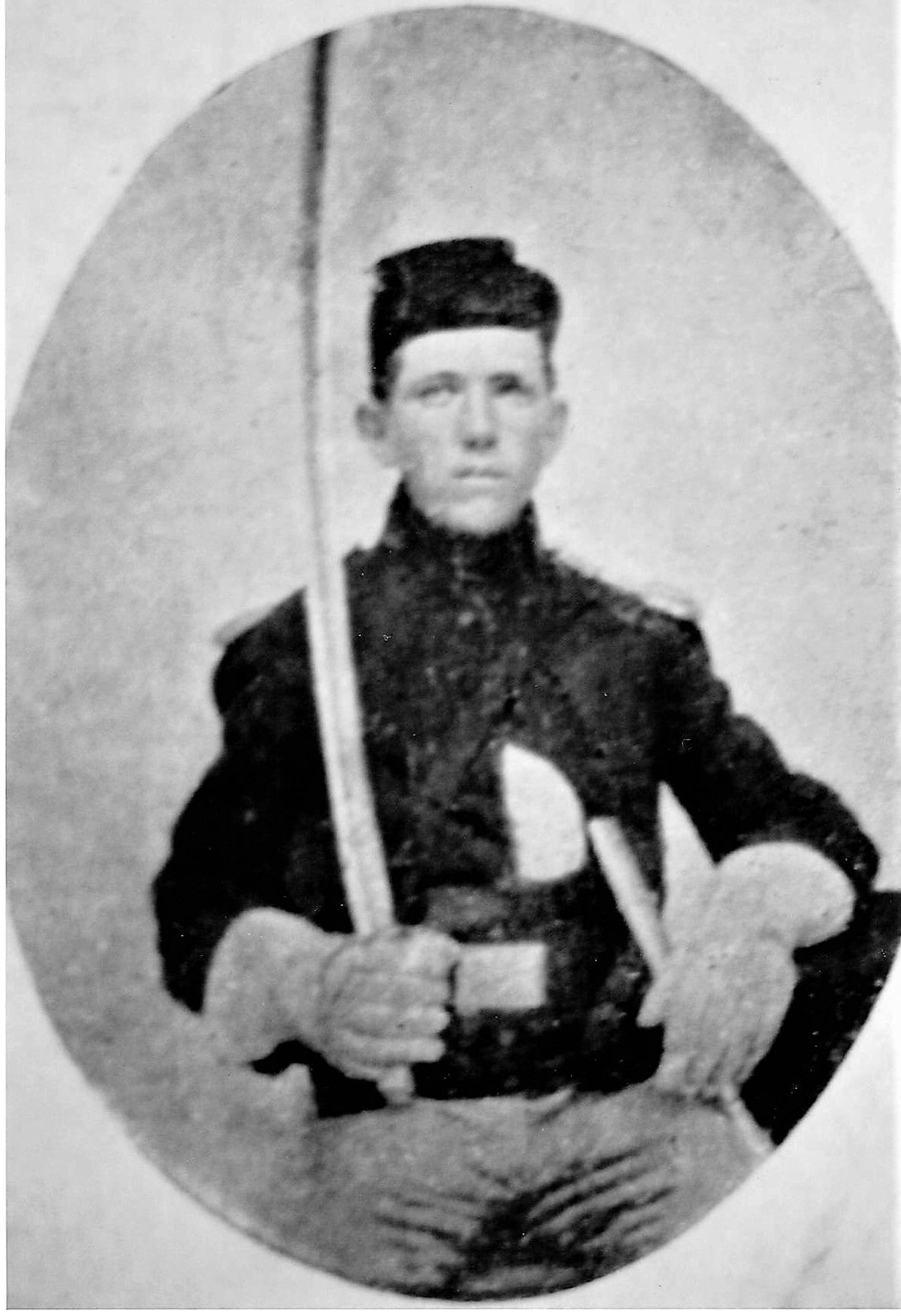 Medal of Honor winner